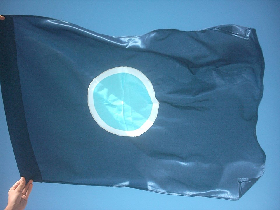 World Flag